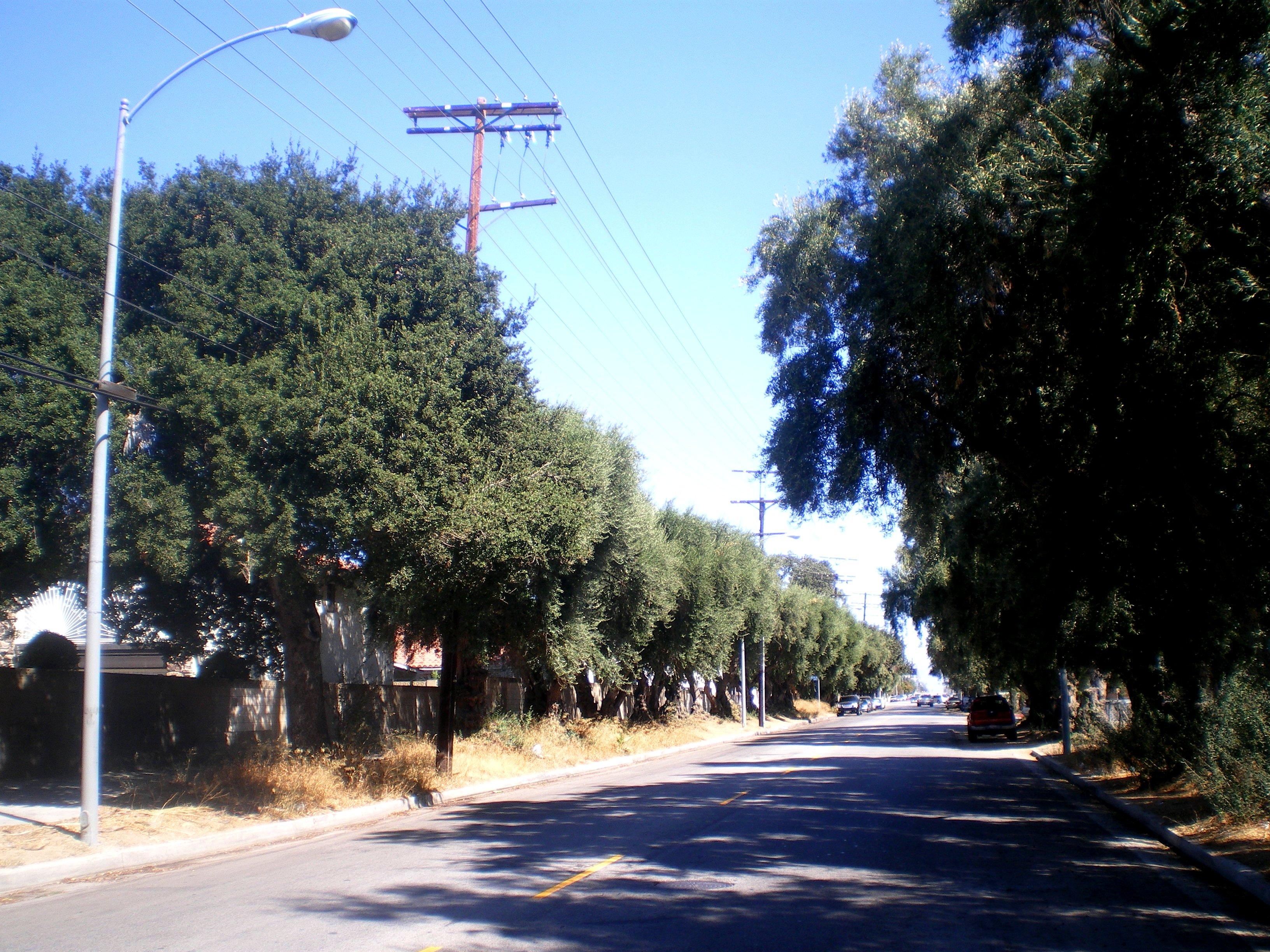 Historic 76 Mature Olive Trees - Lassen Street Olive Trees — mature Olive Trees (Olea europaea) in street tree planting in Chatsworth, northwestern San Fernando Valley, Los Angeles, California. The trees were planted in 1890, and are believed to have been grown out of cuttings taken from ~80 year old olive trees at the Mission San Fernando Rey de España ruins across the Valley. 49 survivors (of 76 in 1967) are listed Los Angeles Historic-Cultural Monument #49, and located along Lassen Street, between Topanga Canyon Boulevard (on east) and Farralone Avenue (on west) in Chatsworth.